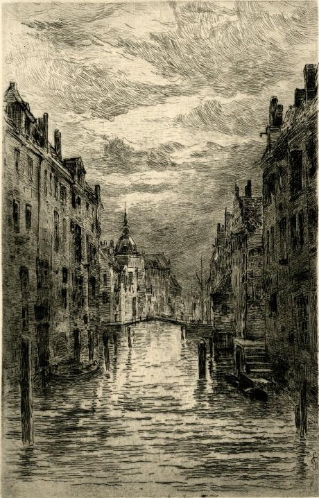 Kanaal, ets